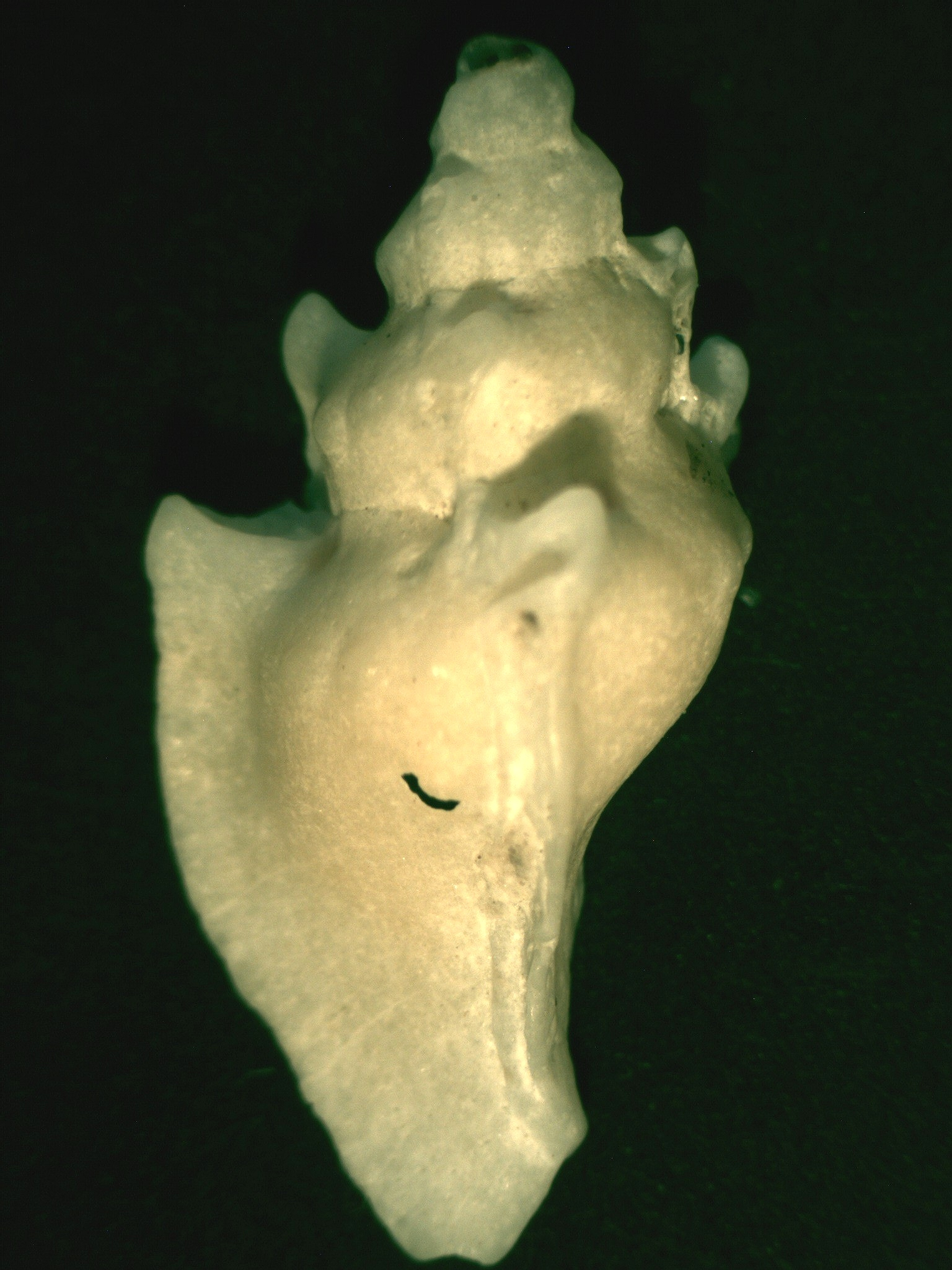 Prototyphis angasi (Crosse, 1863, a murex snail from the family Muricidae; South Australia